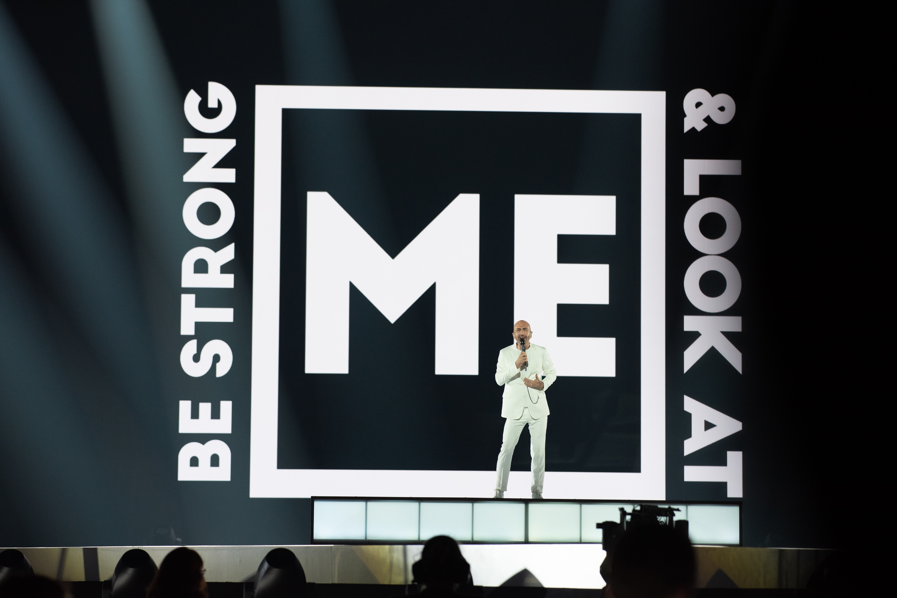 Serhat representing San Marino with the song "Say Na Na Na" during a rehearsal before the grand final of the Eurovision Song Contest 2019 in Tel-Aviv.